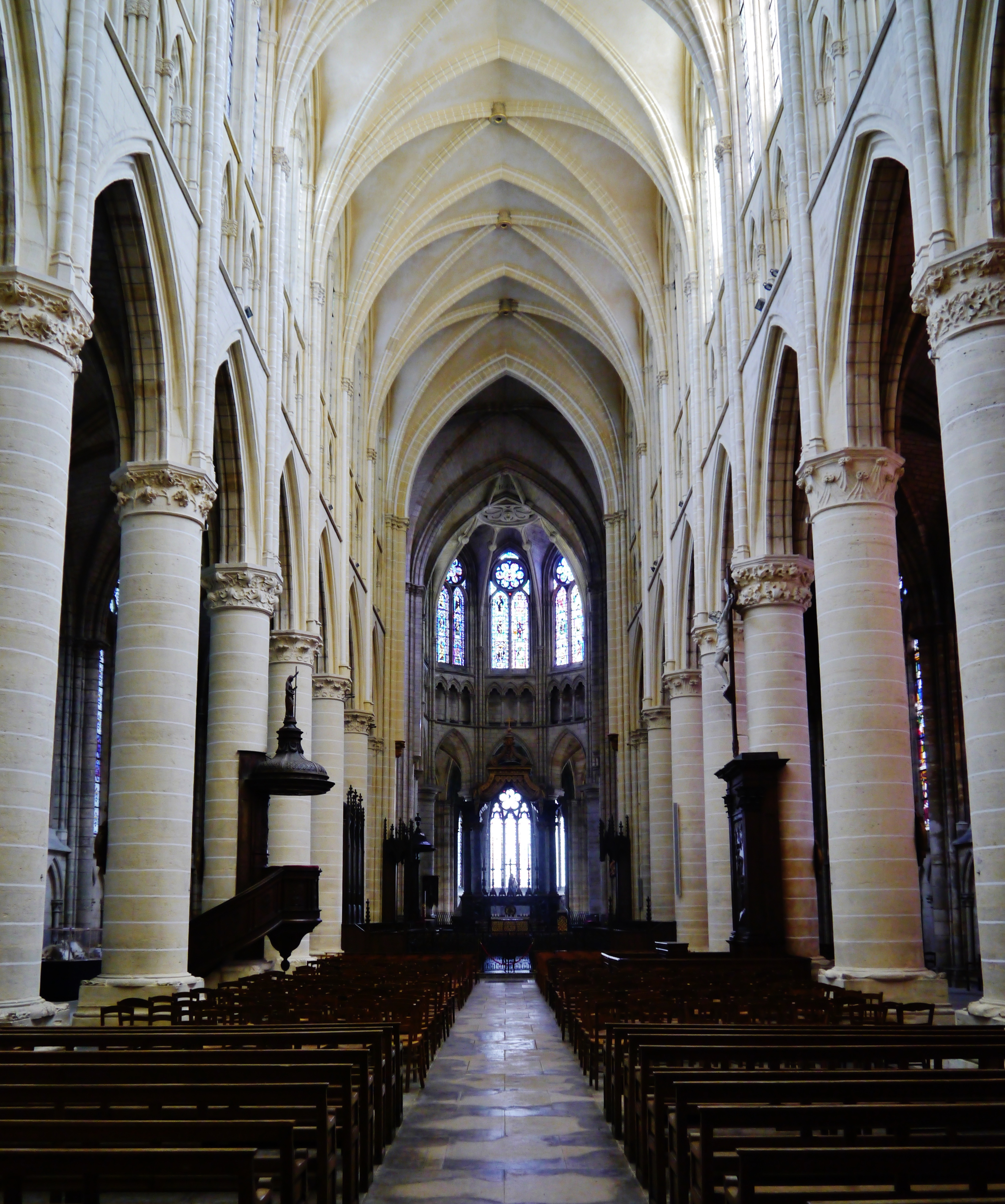 Nave of the Cathedral of St. Stephen, Châlons-en-Champagne, Département of Marne, Region of Grand East (former Champagne-Ardenne), France